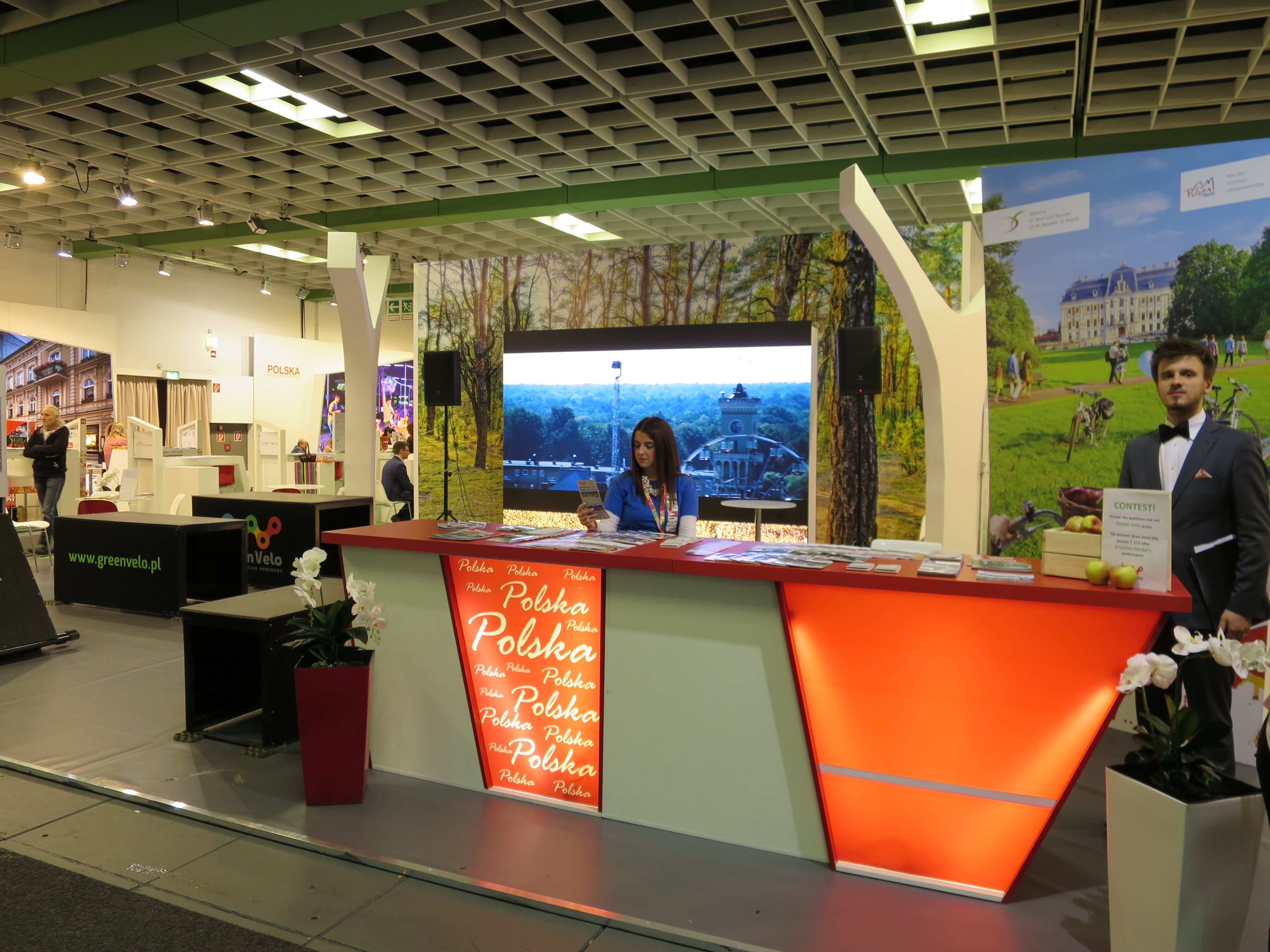 Poland ITB 2017.